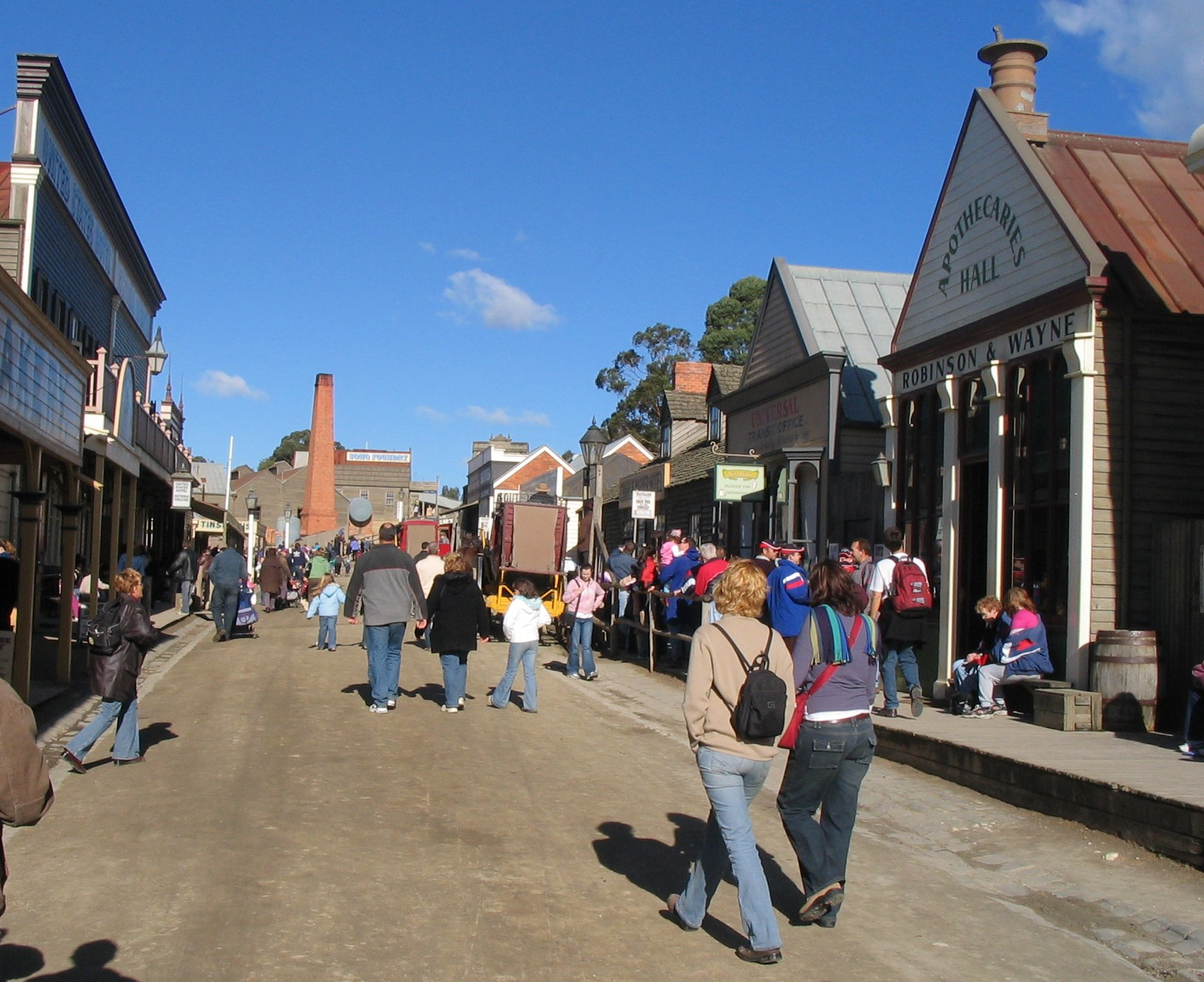 Ballarat (Victoria, Australia), street in Sovereign Hill